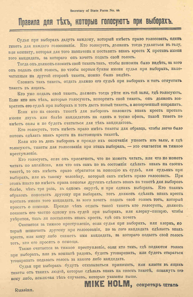 Voting instructions to recent immigrants from the Secretary of State for Minnesota Mike Holm, issued between 1920 - 1930. Featured on the Minnesota Historical Society's blog.